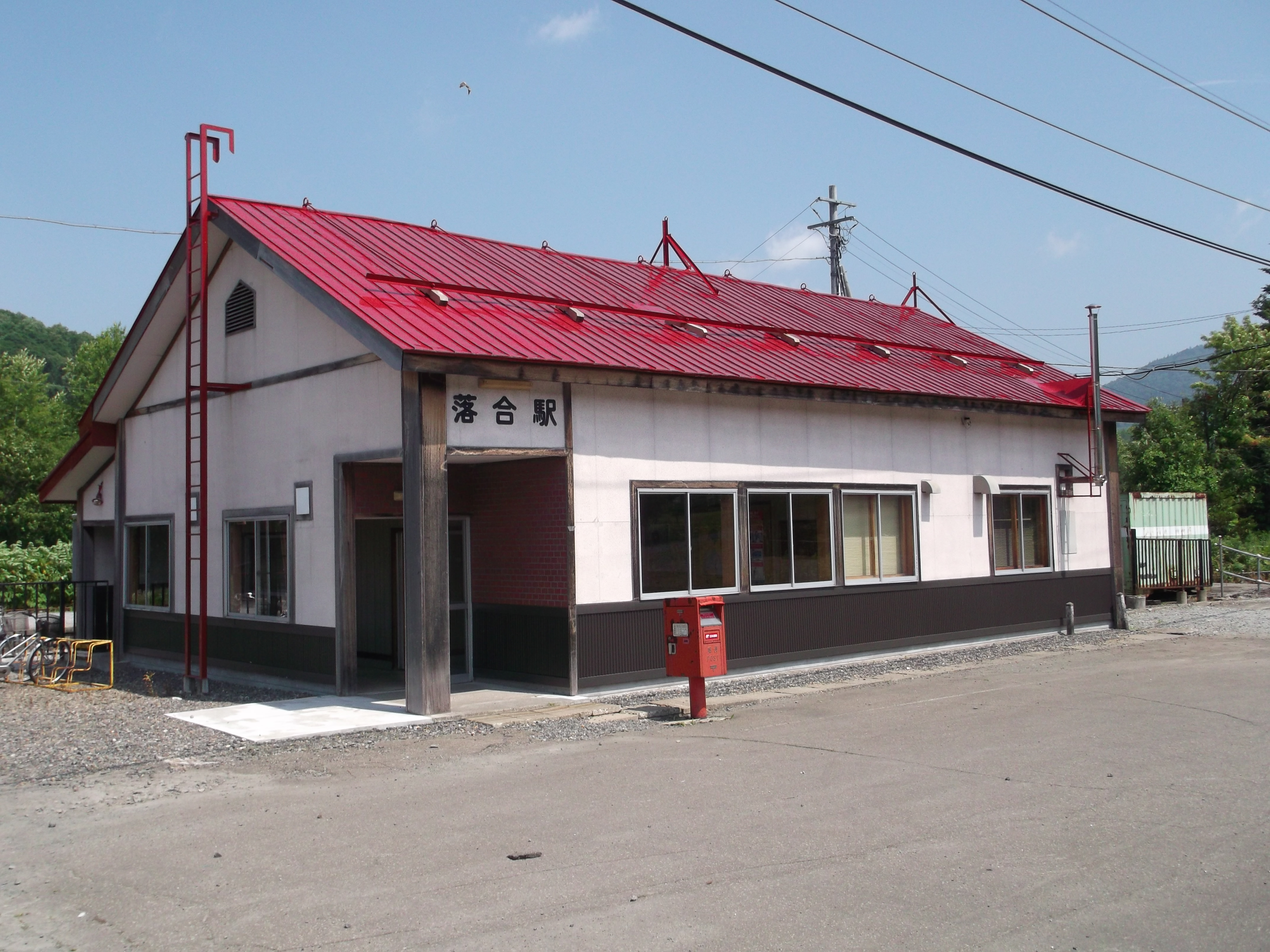 JR Hokkaido Ochiai Station